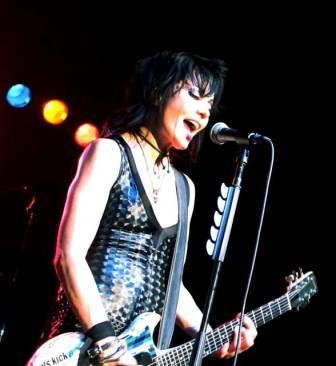 Joan Jett performing on stage at the Grand Victoria Casino in Elgin, Illinois on 24 August 2013.